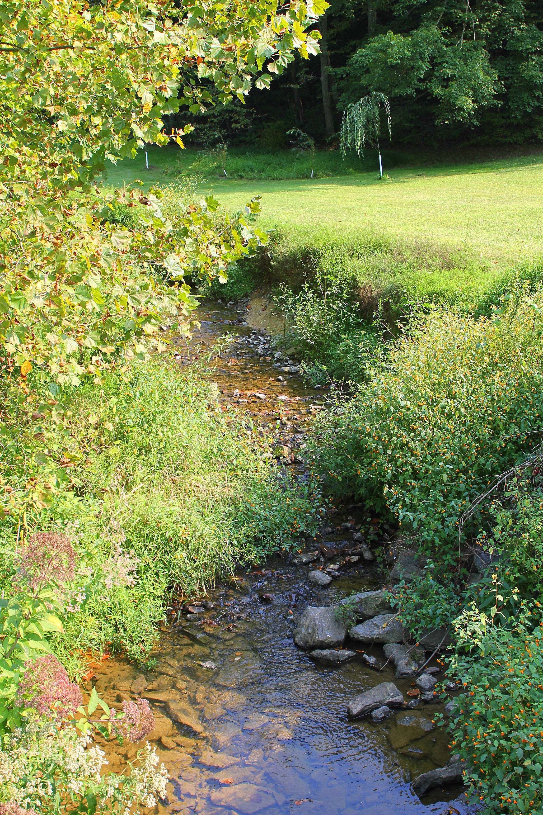 Mouse Creek looking upstream from Pennsylvania Route 225